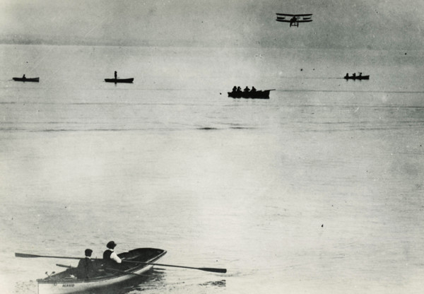 Biplane Dufaux 4 piloted by Armand Dufaux (1883-1941) - constructed by Armand and Henri Dufaux (1879-1980) - Lake Geneva, August 28, 1910.